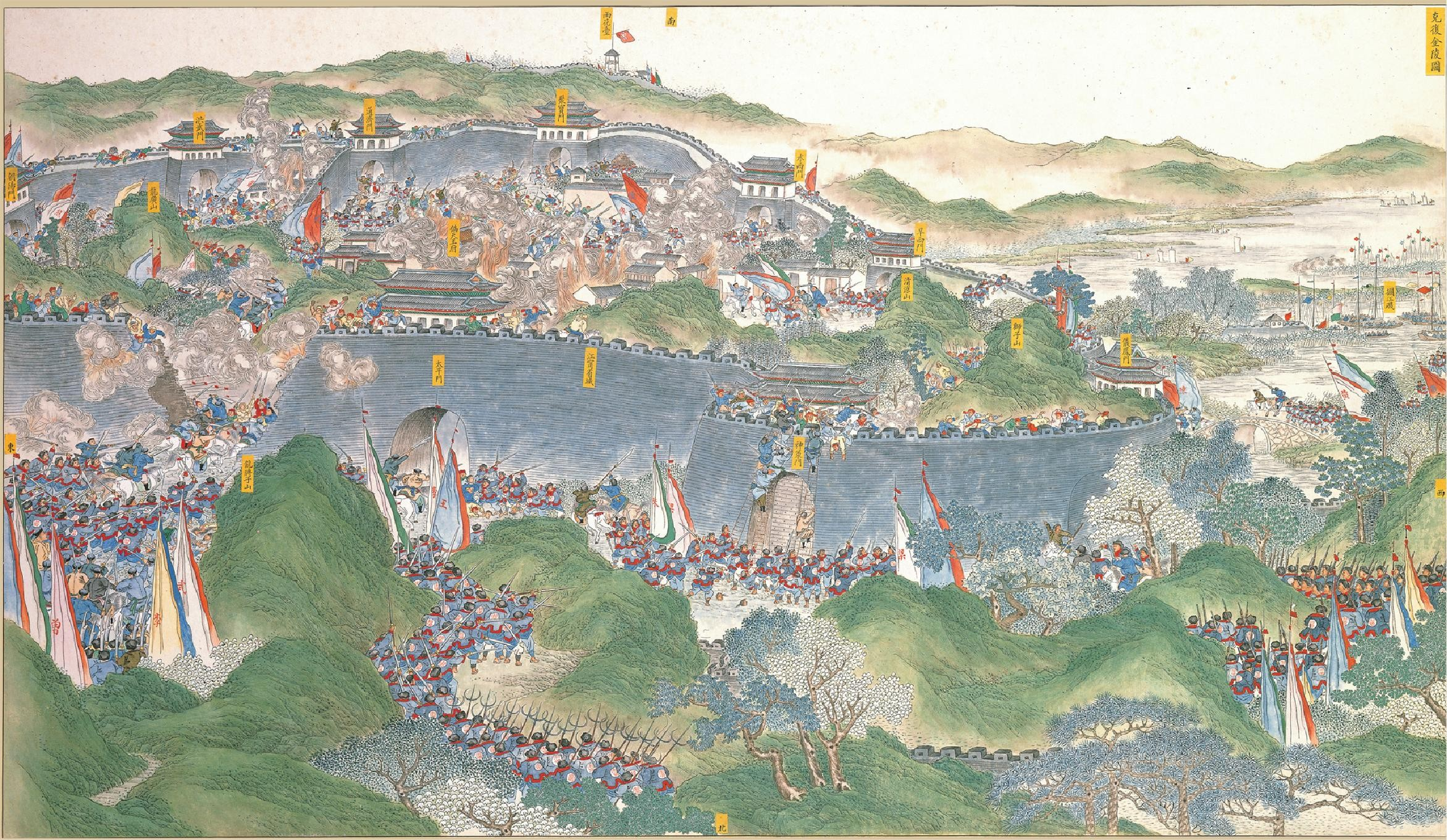 A scene of the Taiping Rebellion, 1850-1864